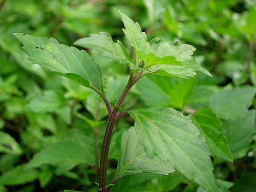 Young leaves of Orthosiphon stamineus